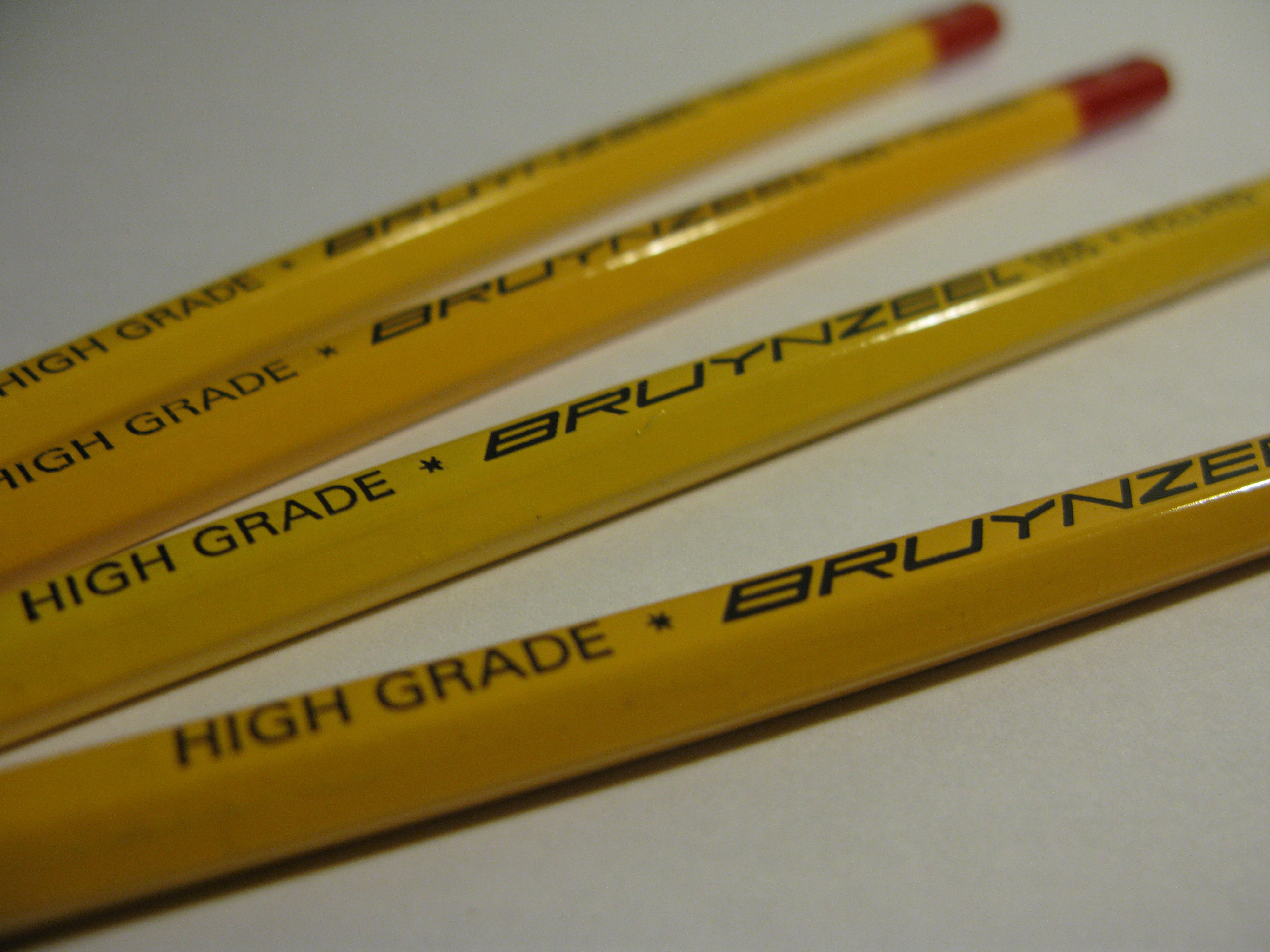 Pencils from Bruynzeel.